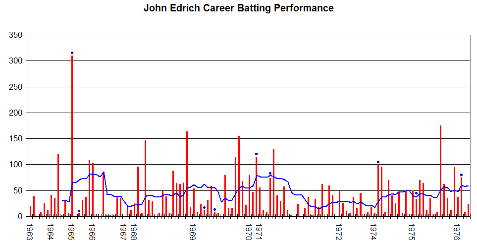 This graph details the Test Match performance of John Edrich. It was created by Raven4x4x. The red bars indicate the player's test match innings, while the blue line shows the average of the ten most recent innings at that point. Note that this average cannot be calculated for the first nine innings. The blue dots indicate innings in which Edrich finished not-out. This graph was generated with Microsoft Excel 2002, using data from Cricinfo and .au.